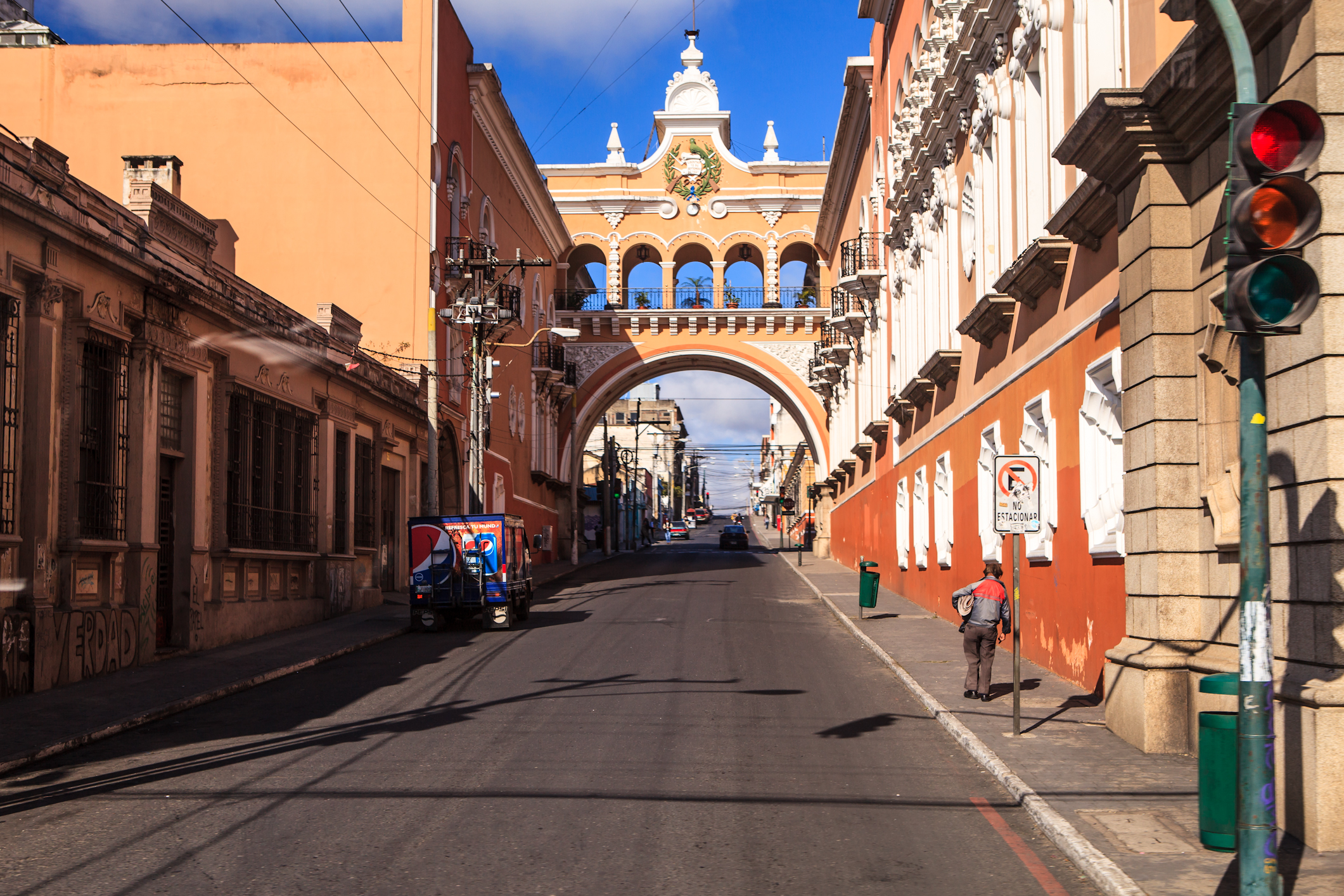 Guatemala City sights